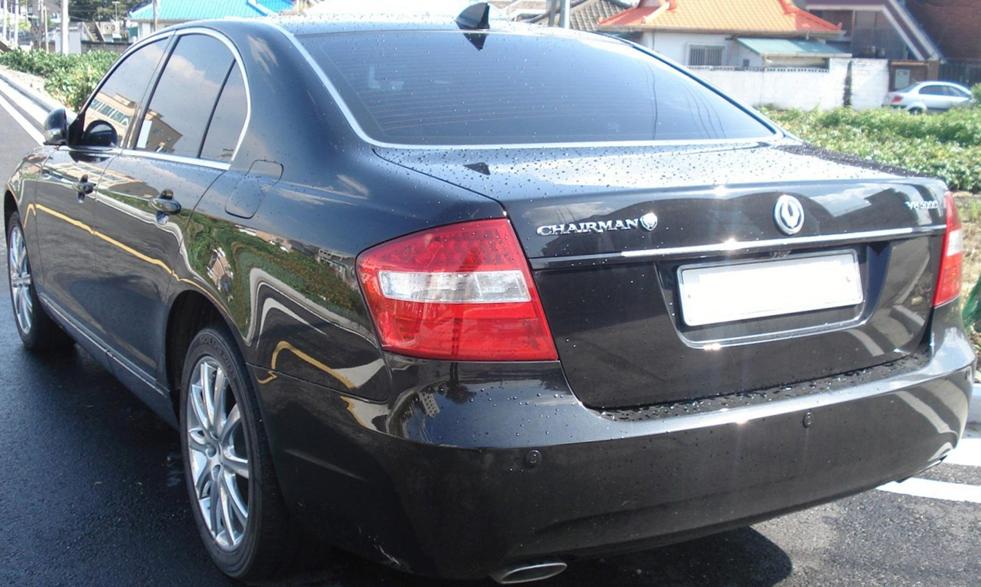 SsangYong Chairman W